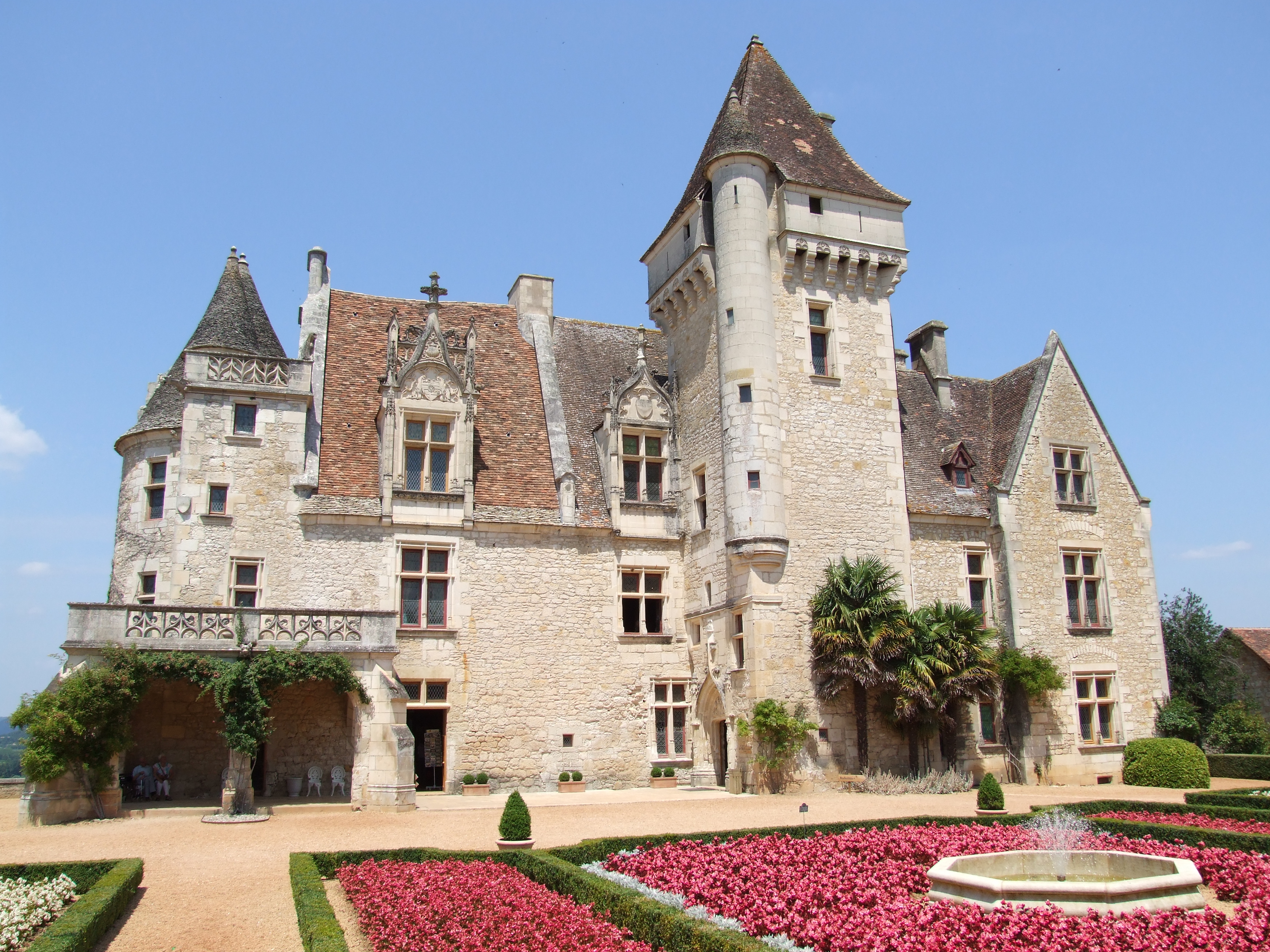 The facade of Château des Millandes